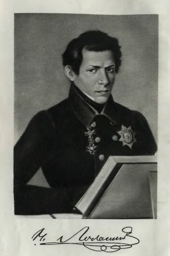 Nikolay Ivanovich Lobachevsky